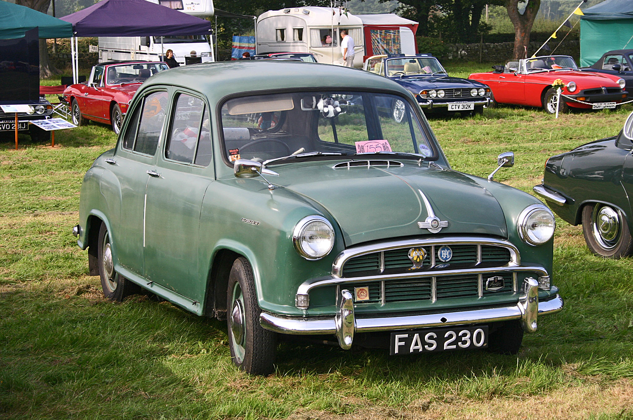 This 1956 Morris Cowley uses the same body as the Morris Oxford Series II. The Morris Oxford Series II was more expensive than the Cowley and had the choice of a larger engine